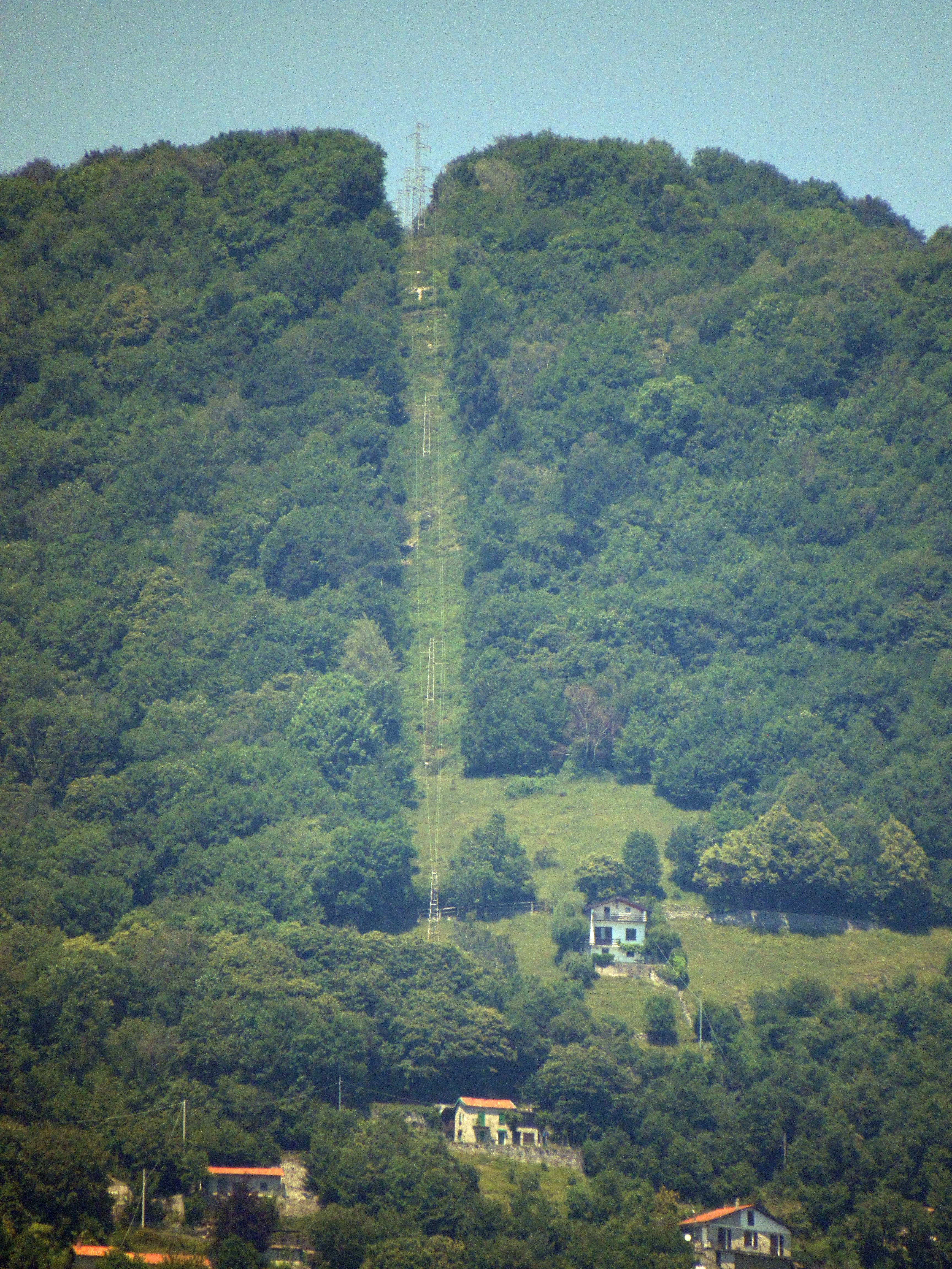 Power lines over a hill, as seen from Como, Italy.